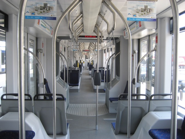 Interior of a Combino Plus tram